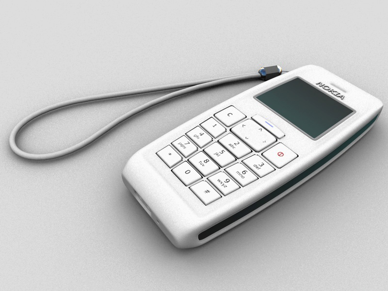 Industrial design made with Cinema 4D